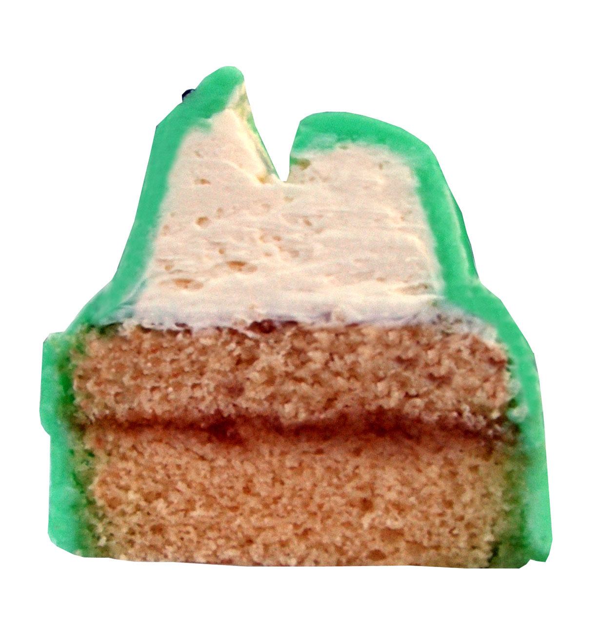 A dissected frog cake, displaying the internal structure